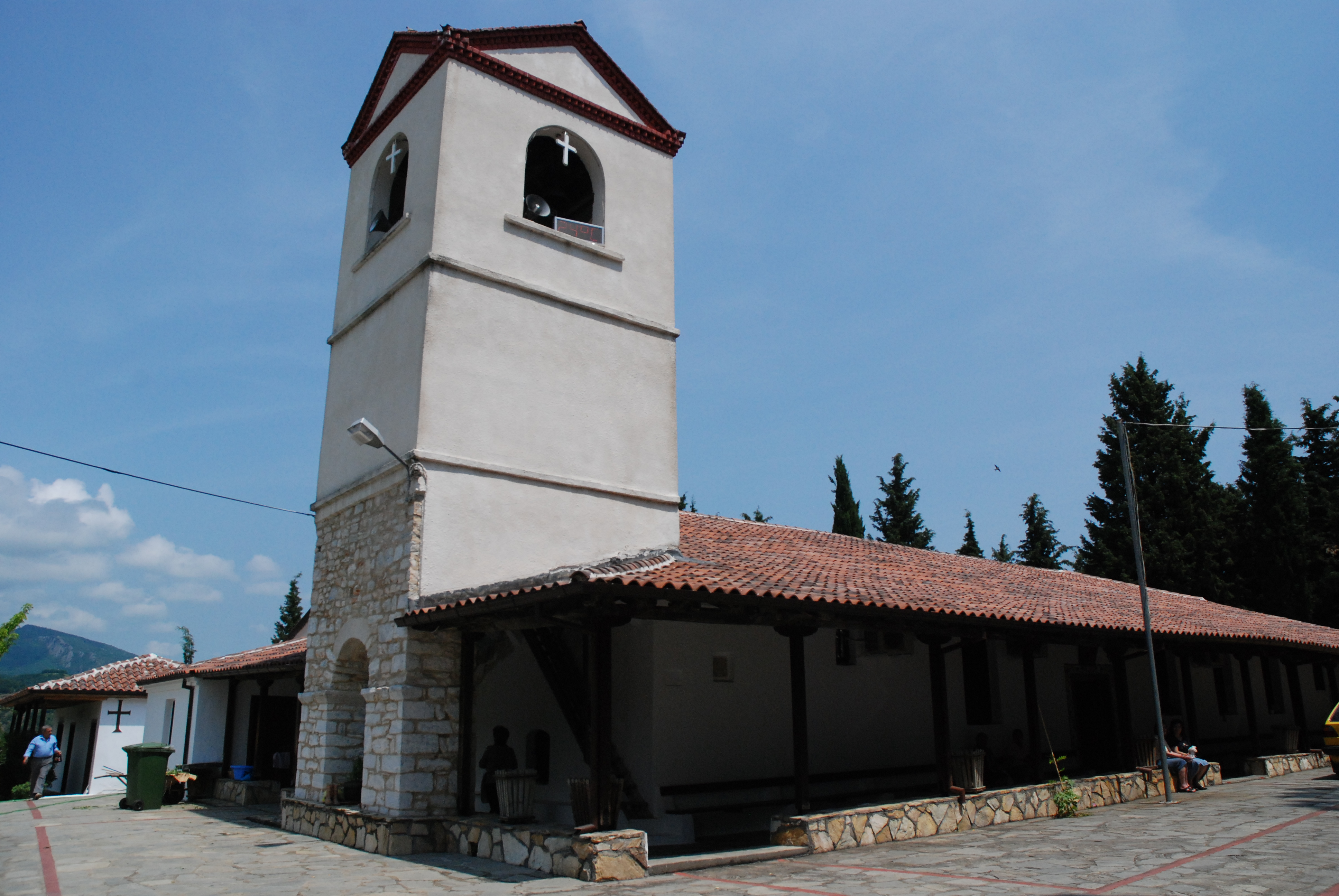 Saint Athanasios church in Griva